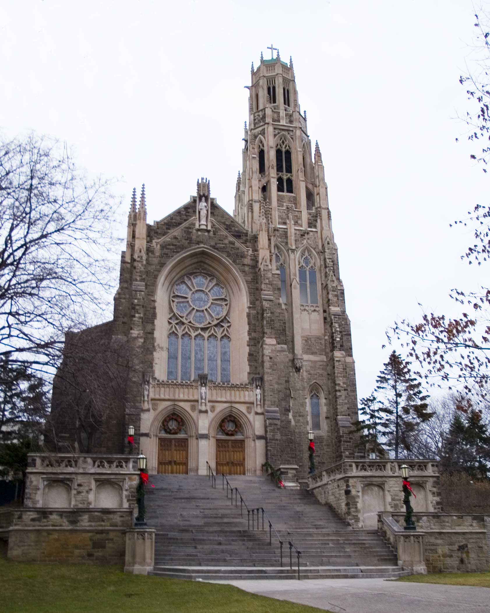 Hamilton location of the Cathedral of Christ the King (43.266355,-79.945883)